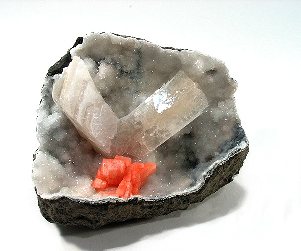 Epistilbite, Heulandite-Ca, Quartz Locality: Jalgaon District, Maharashtra, India (Locality at ) Size: small cabinet, 8.5 x 7.2 x 4.2 cm Epistilbite with Heulandite in Quartz geode A slamon-pink cluster of incredibly well-formed euhedral epistilbite crystals, showing tru chisel-type terminations, flanked by two splaying wings of heaulandite! I had this trimmed down from a much larger specimen to highlight the unusual combination, and I think the result is quite unique. 8.5 x 7.2 x 4.2 cm